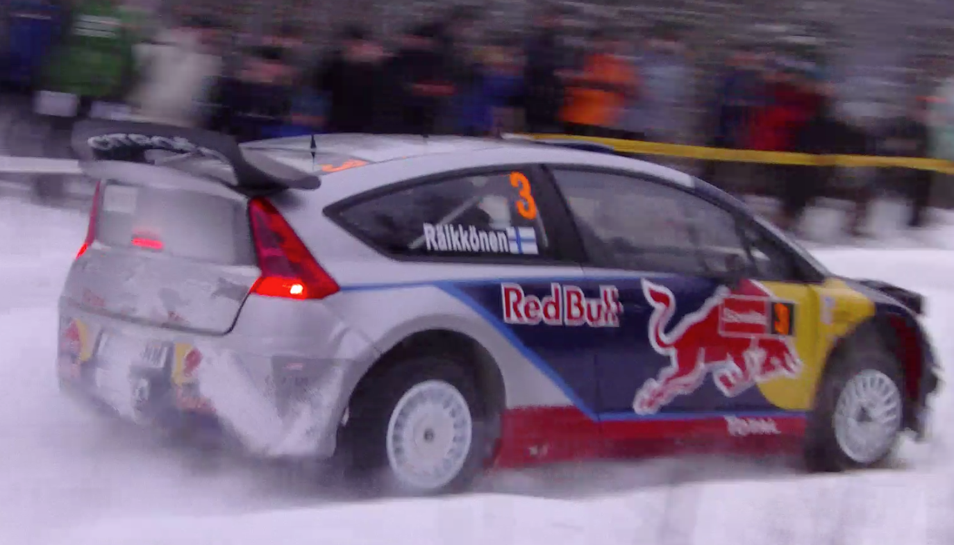 Kimi Räikkönen driving a Citroen C4 at Arctic Lapland Rally 2010, Rovaniemi Finland.